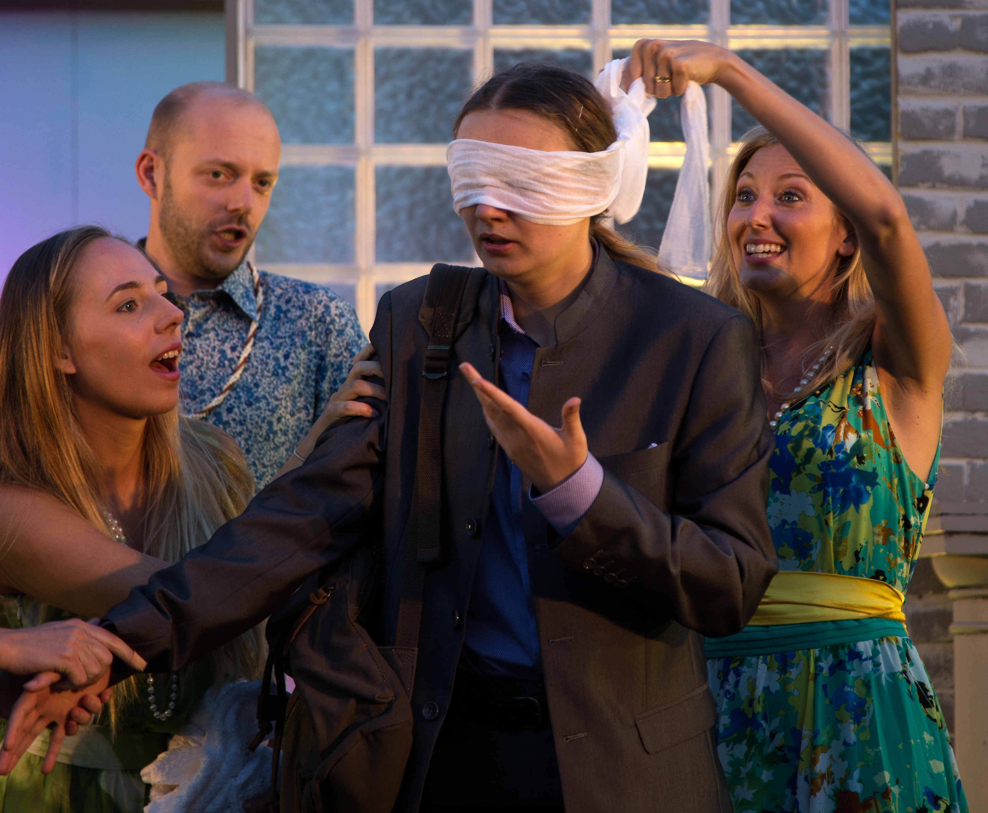 Scene from opera Orfeo by Ferdinando Bertoni performed by Bampton Classical Opera in 2014